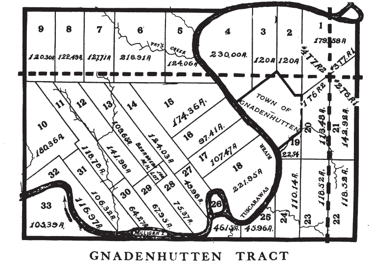 A map of a tract of land in Tuscarawas County, Ohio set aside for Christian Munsee in the 18th century. see Moravian Indian Grants